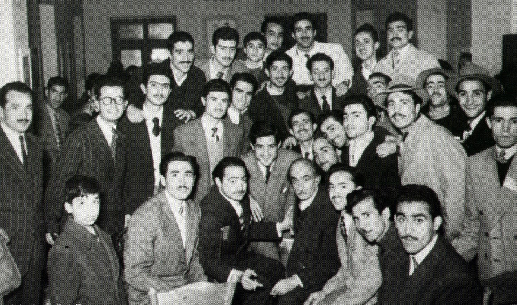 Jalal Al-e-Ahmad